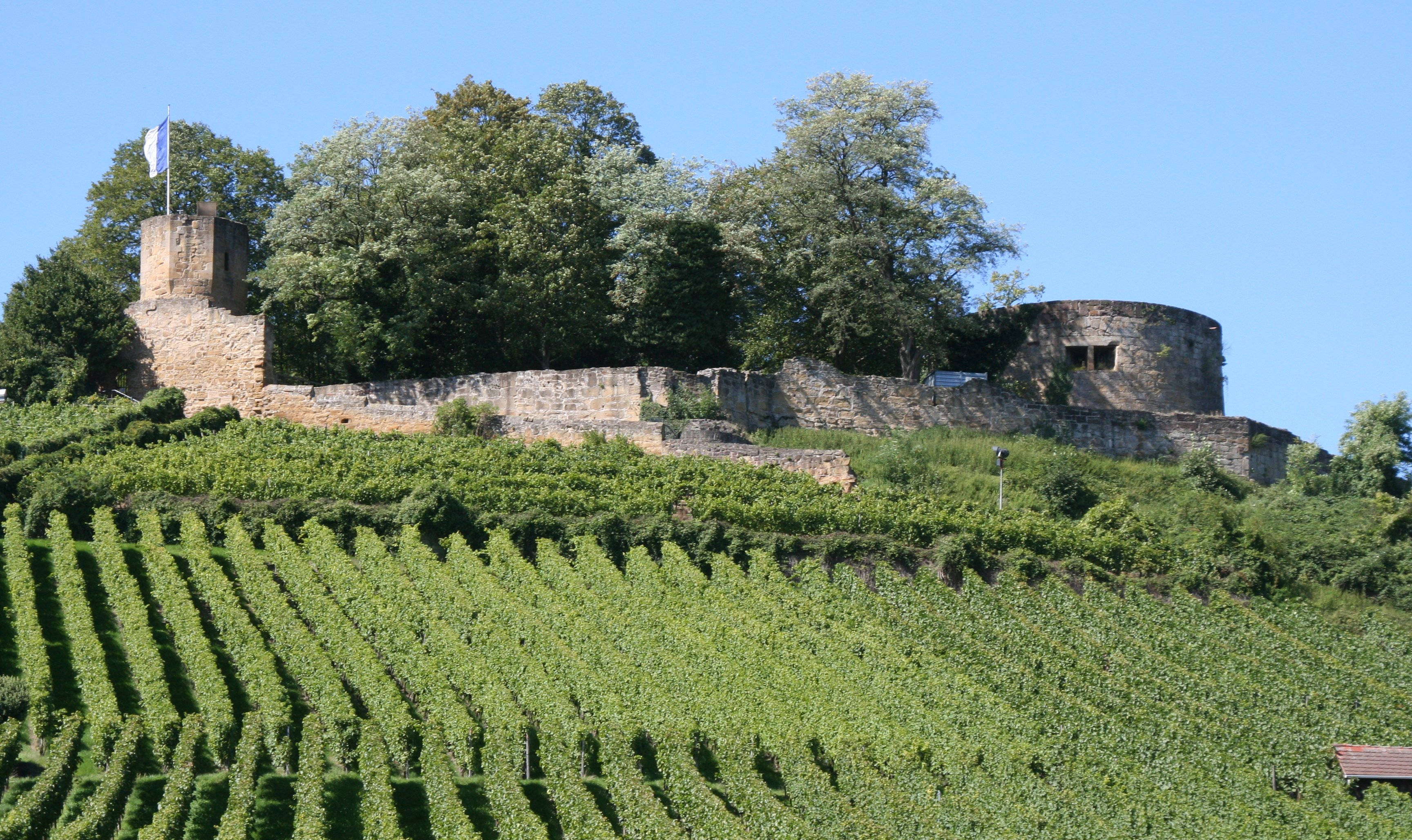 Burgruine Weibertreu from the East